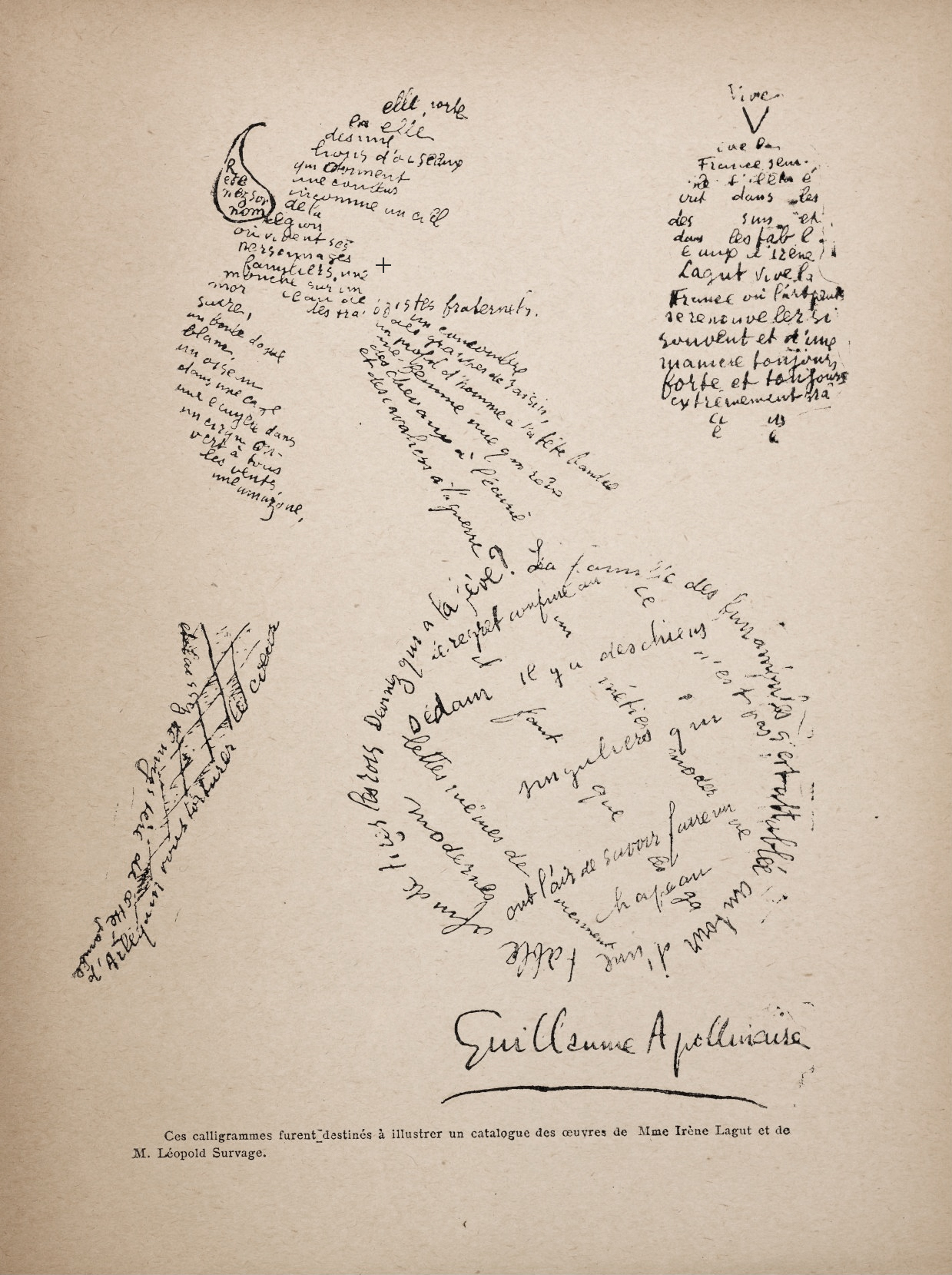 Guillaume Apollinaire (1880–1918), Calligram